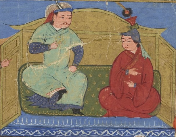 Arghun and his khatun (possibly Qutlugh Khatun)